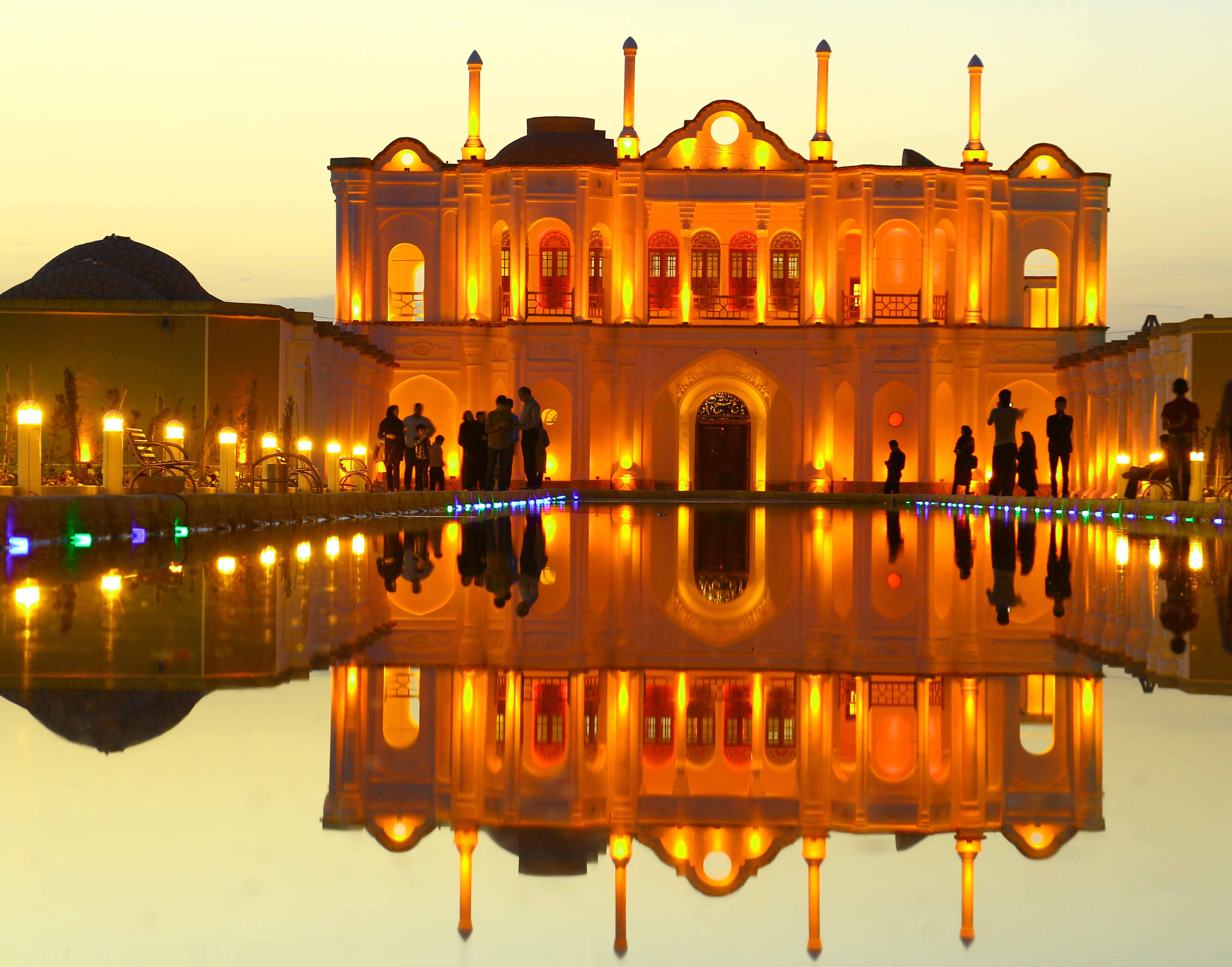 photo by Abouzar salari